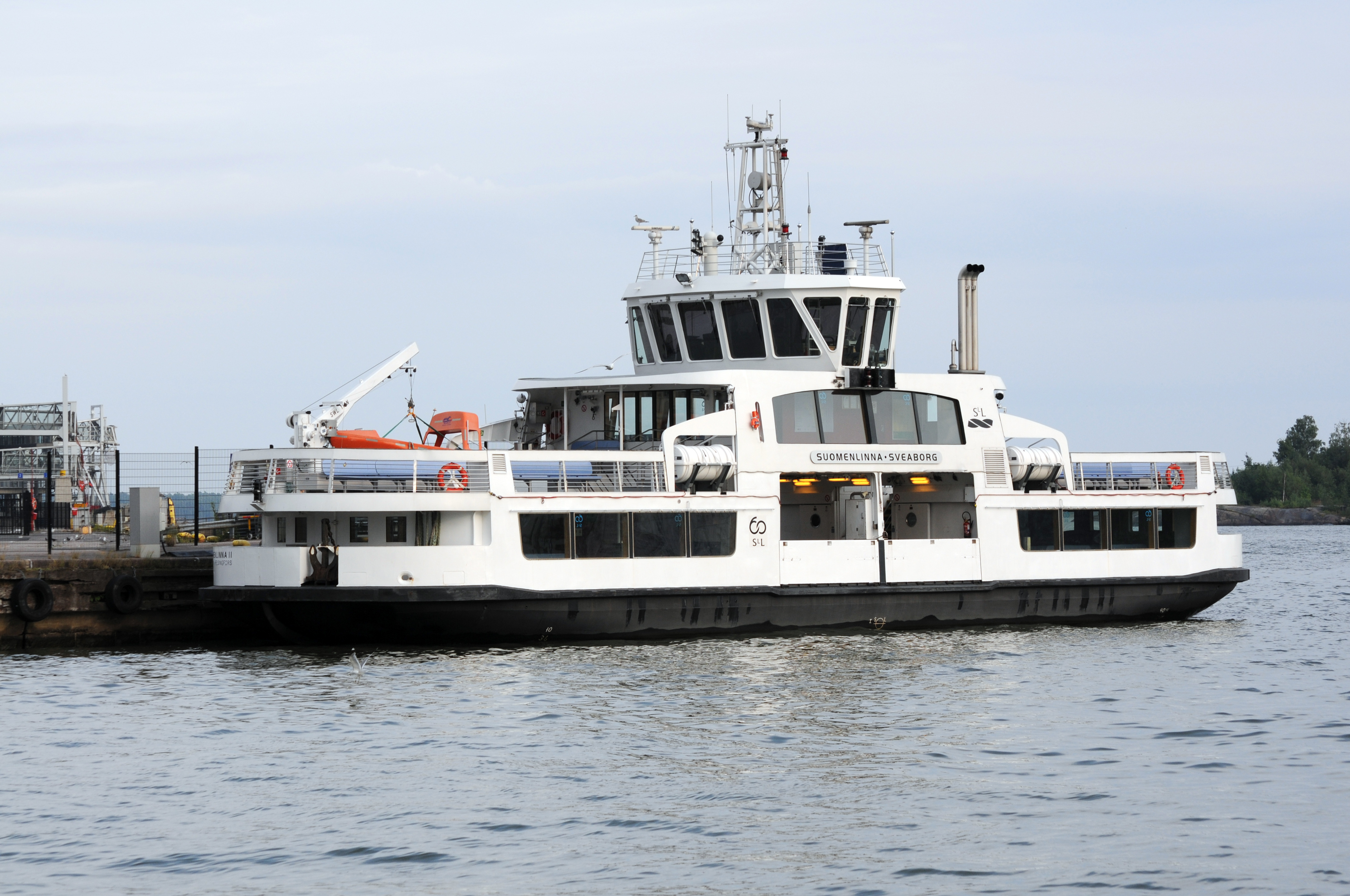 Suomenlinna II ferry in Helsinki, Finland.